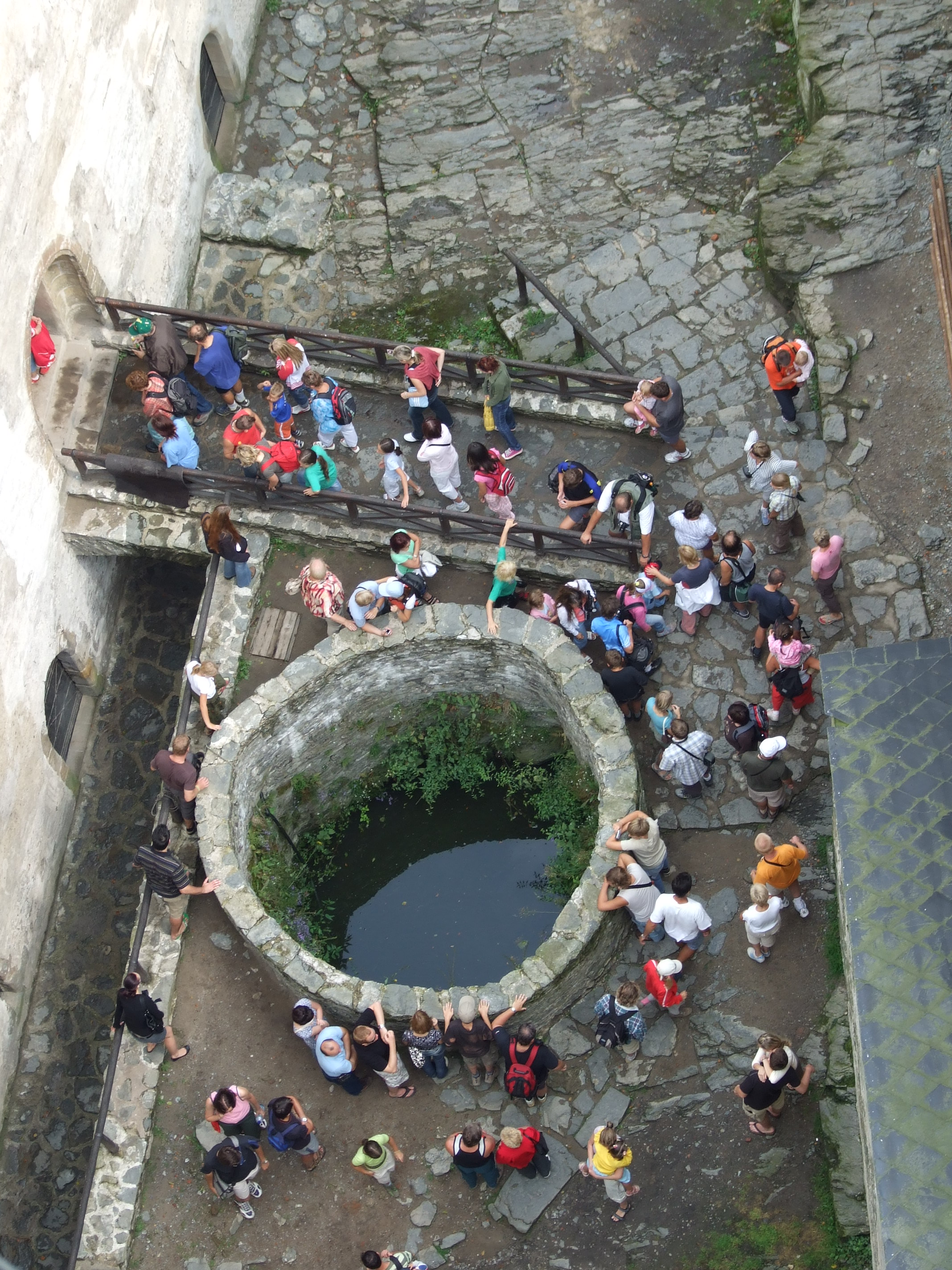 Bezděz castle